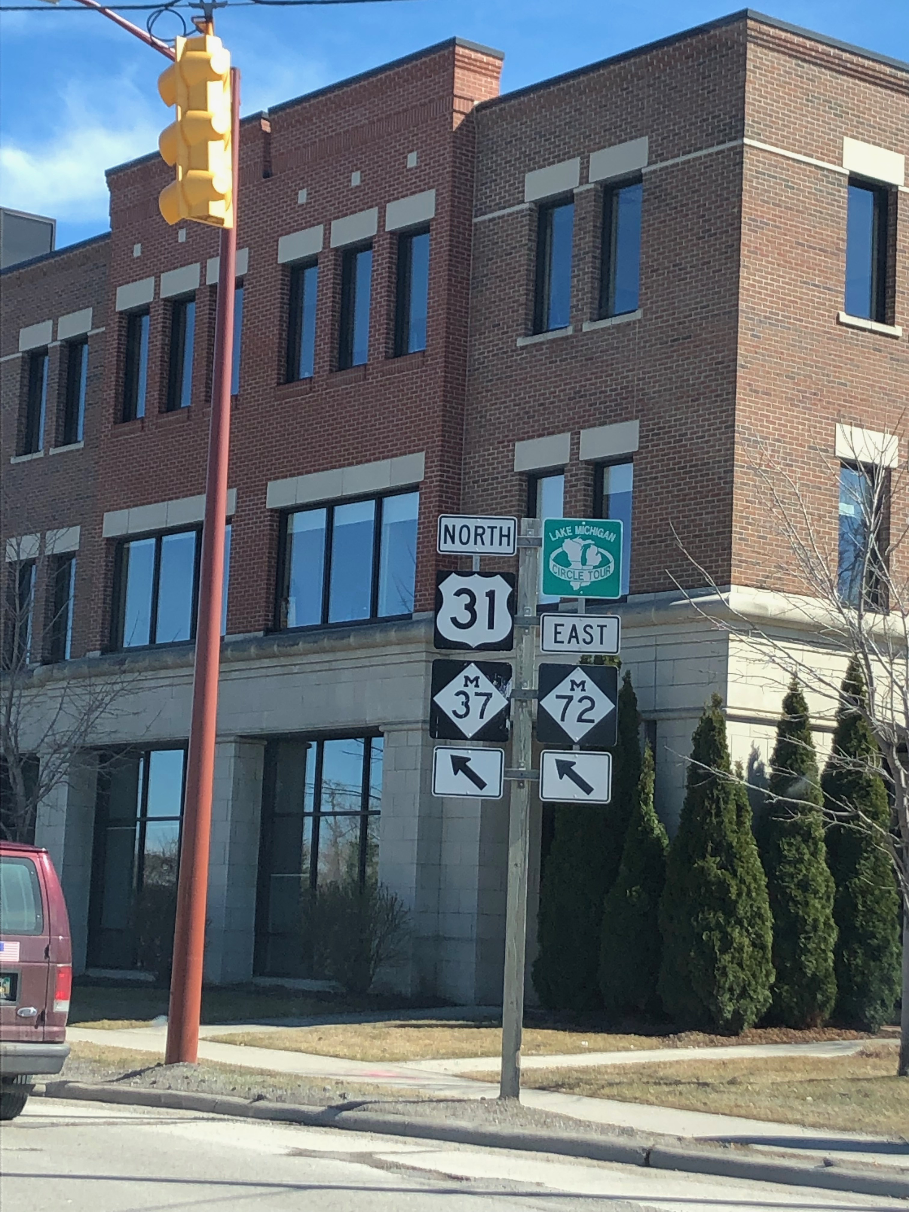 Grandview Parkway Sign